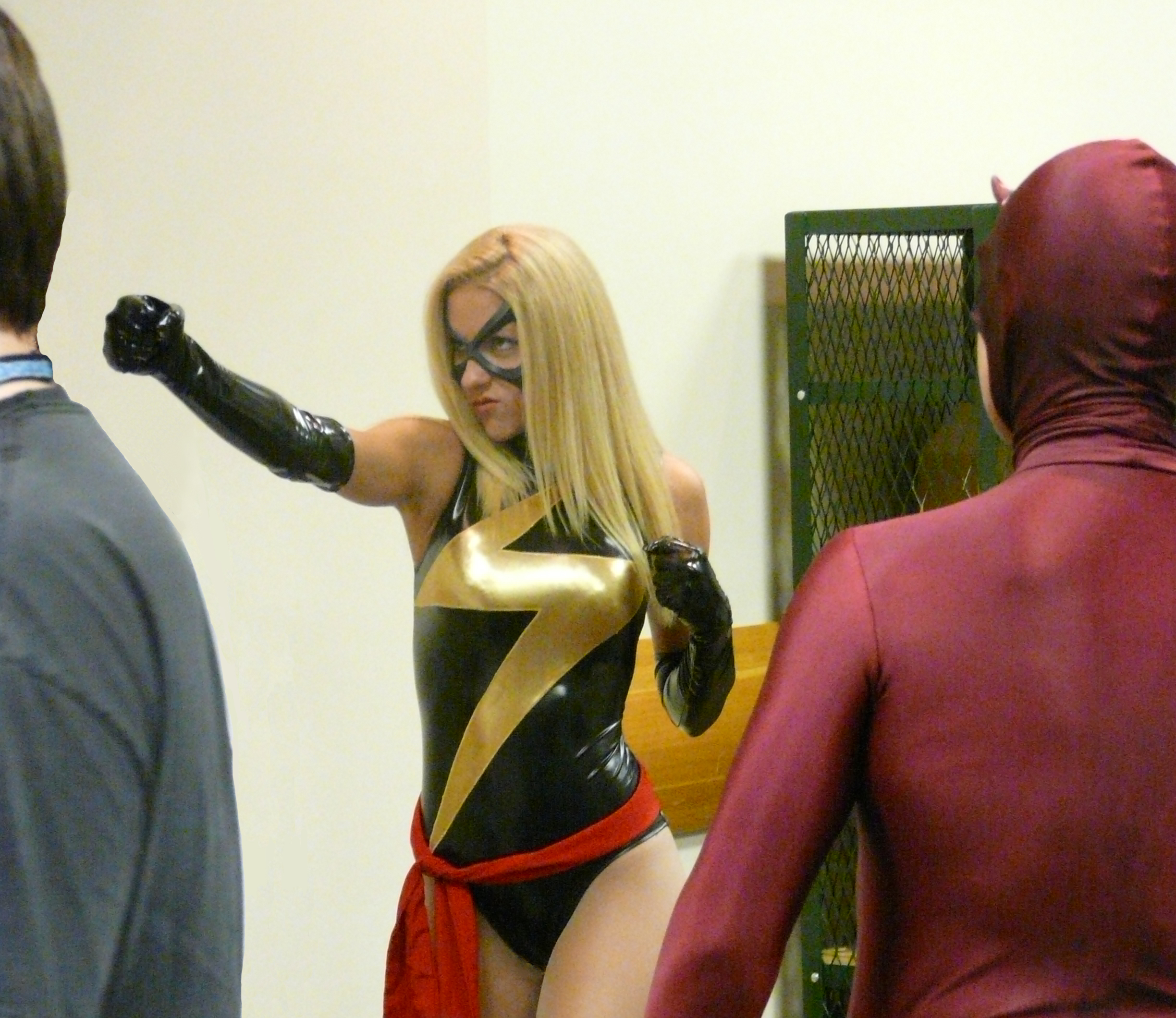 Picture of Gen Con Indy 2008 in Indianapolis, Indiana, USA.